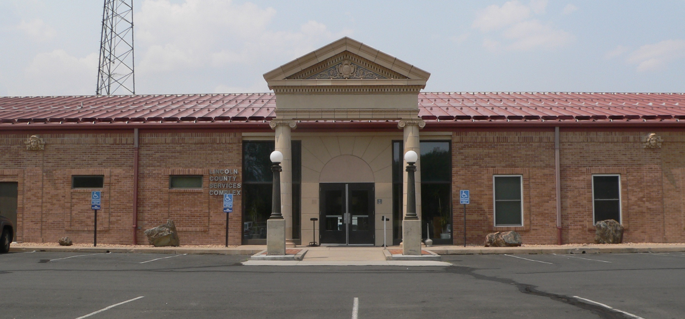 Main entrance of Lincoln County courthouse in Hugo, Colorado.